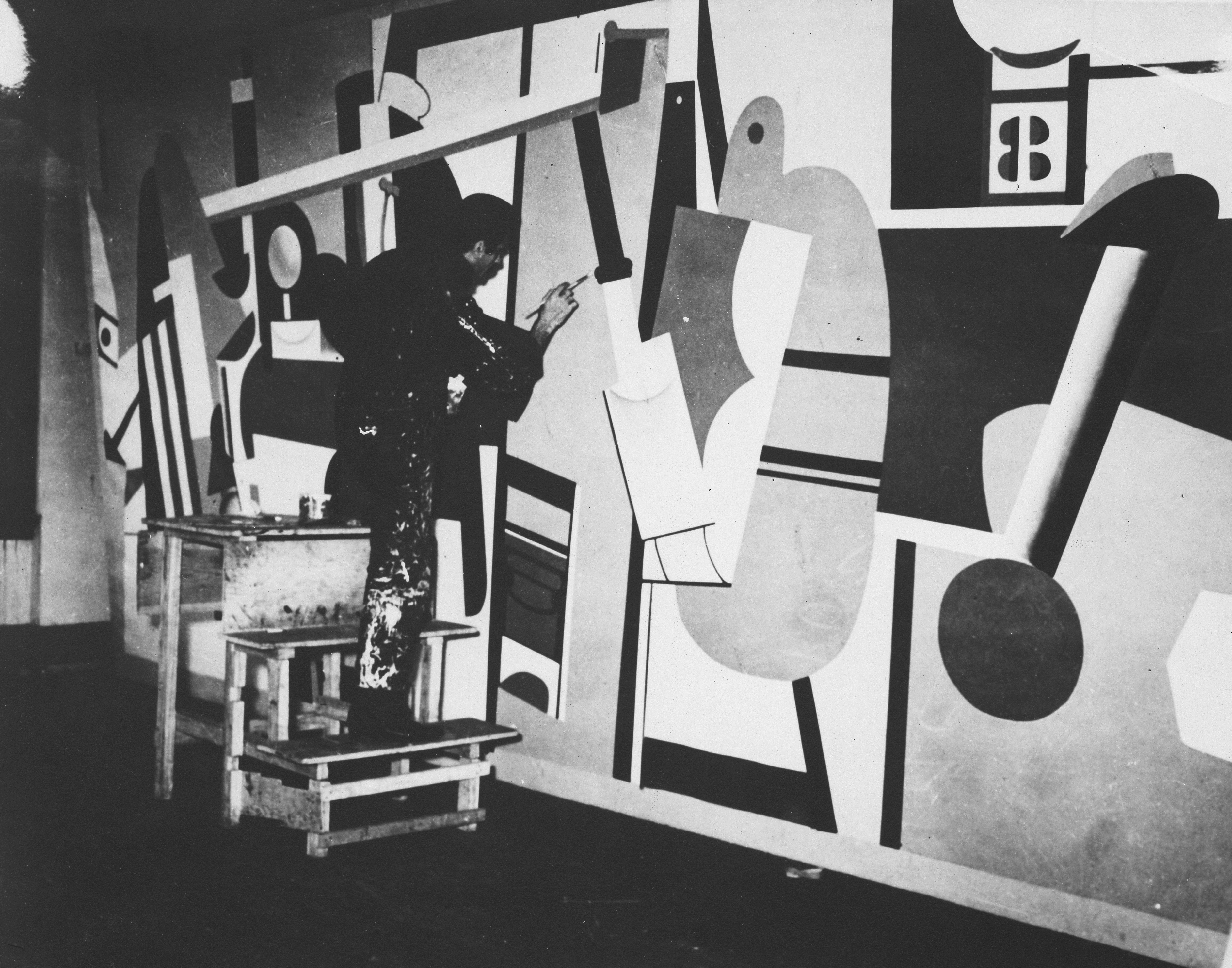 Gorky working on "Modern Aviation" murals in Newark Airport for the Federal Art Project. Identification on verso (stamped): Federal Art Project W.P.A.; Photographic Division; 235 East 42nd Street; New York City. Arshile Gorky (1904–1948) Alternative names Горки А.; Горки, Аршиль; Арчил Горки; Горки Аршиль; Vostanig Adoyan; Arshil Gorky; Arshil Gorkiy; Vostanik Adoyan; Gorky; Ostanik-Manuk Adoian; Arshile Gorky Adoian; Osdanig-Manug Atoyan; Arshil Gorki Adoyan; Wostanig Adoyan; Vosdanig Manoog Adoian; Ostanik-Manuk Adoyan; Arshil Gorki; Ostanik-Manuk Adoyean; Osdanig-Manug Atoian; Vostanik-Manuk Adoian; Arschille Gorky; Vosdanik Adoian; Arshele Gorky; Vosdanig AdoianDescriptionAM/US-American painter and designerDate of birth/death 15 April 1904 21 July 1948 Location of birth/death Van ShermanAuthority control : Q165648 VIAF: 22150791 ISNI: 0000 0000 8100 6025 ULAN: 500021392 LCCN: n79082320 Open Library: OL554855A WorldCat creator QS:P170,Q165648